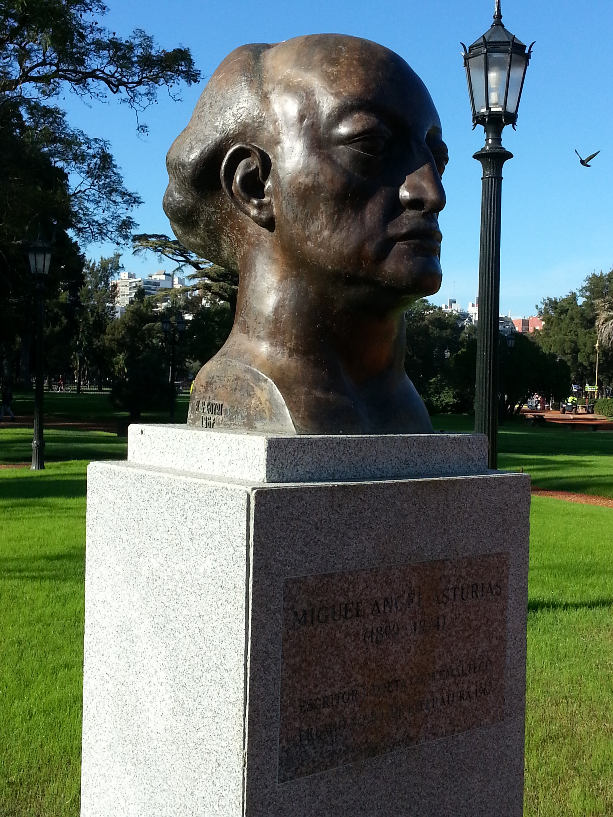 Bust of Miguel Ángel Asturias. Paseo de los Poetas, El Rosedal, Buenos Aires, Argentina.